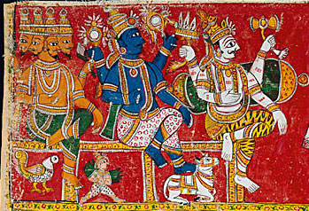 Shiva, Vishnu, and Brahma,(from right) From the Story of the Sages Markandeya and Bhavana, circa 1850-1900 Painting; Watercolor, Opaque watercolor on cloth, 22 x 34 1/2 in. (55.88 x 87.63 cm) Made in: India, Andhra Pradesh from LACMA [1]